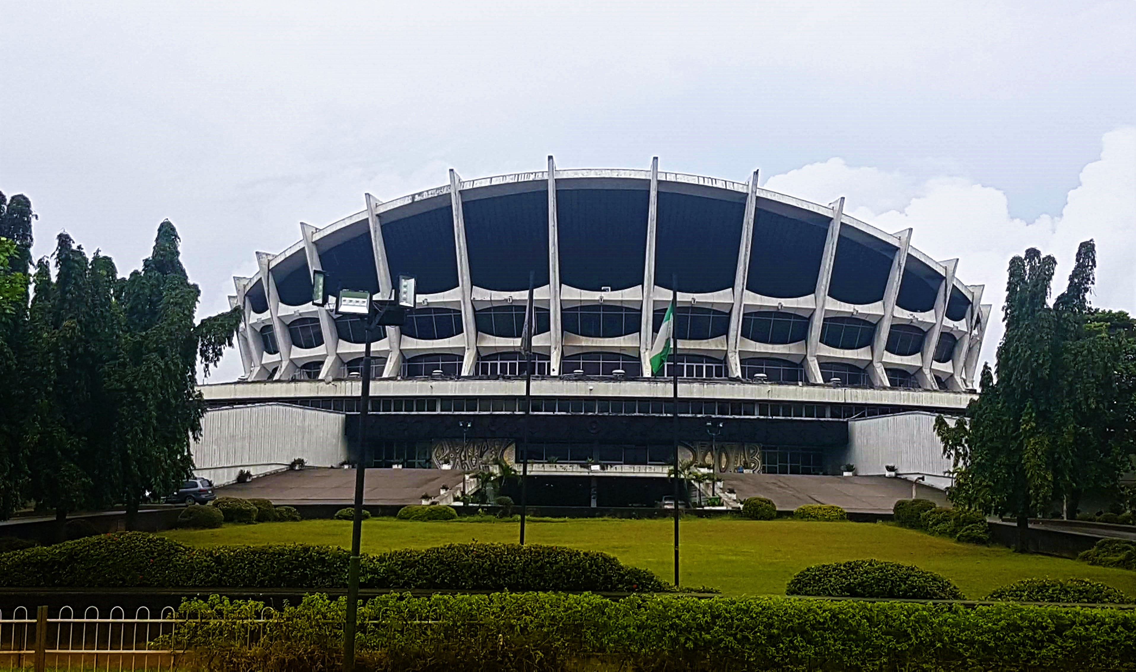 National Arts Theatre